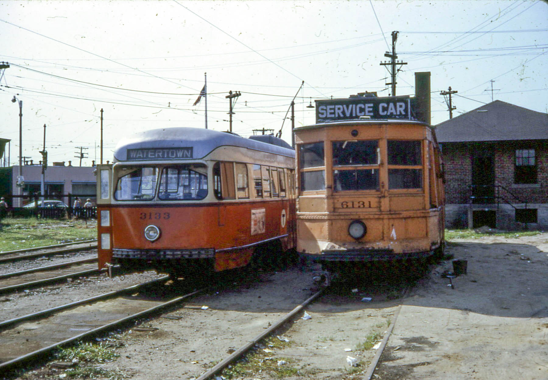 A PCC streetcar and Center-Entrance #6131 (converted to a work car) at Watertown Yard in 1967. #6131 is now at Seashore Trolley Museum.